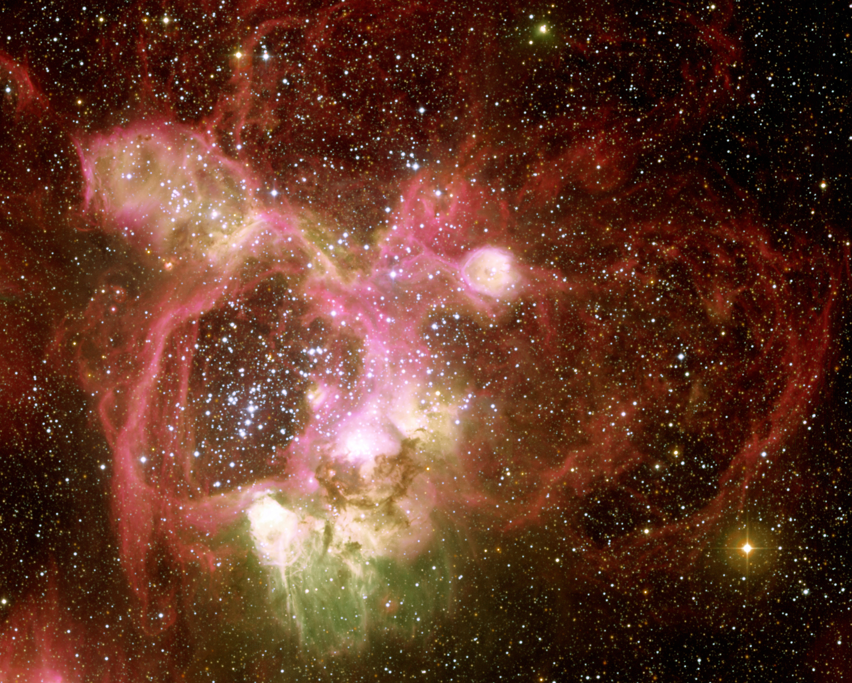 The centre of the associated nebular complex N44 in the Large Magellanic Cloud in more detail. The field size is 8.5 x 8.5 square arcminutes. North is up and East is left.